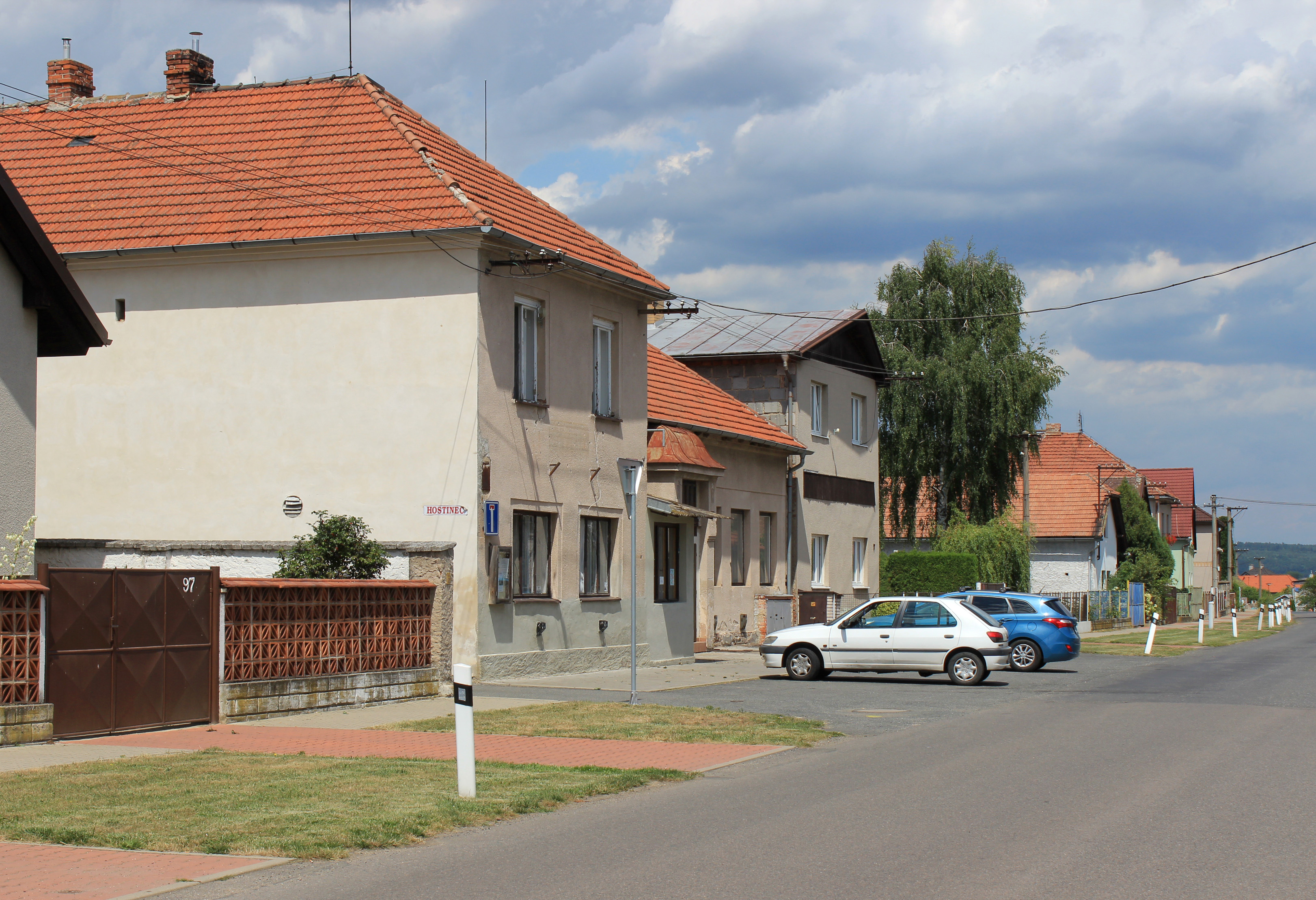 Čáslavská street in Horní Bučice, part of Vrdy, Czech Republic.